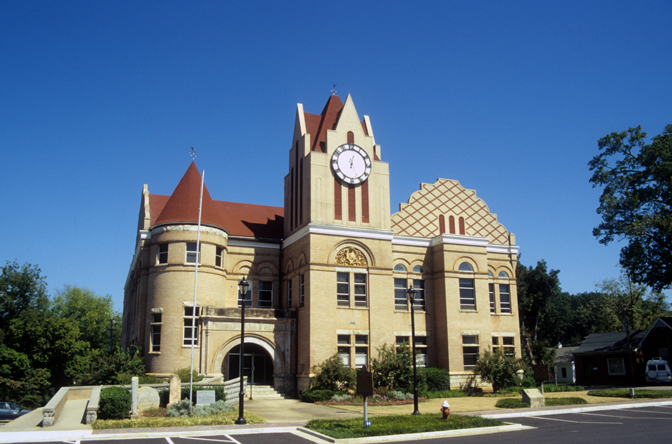 Wilkes County Courthouse - Washington, Georgia